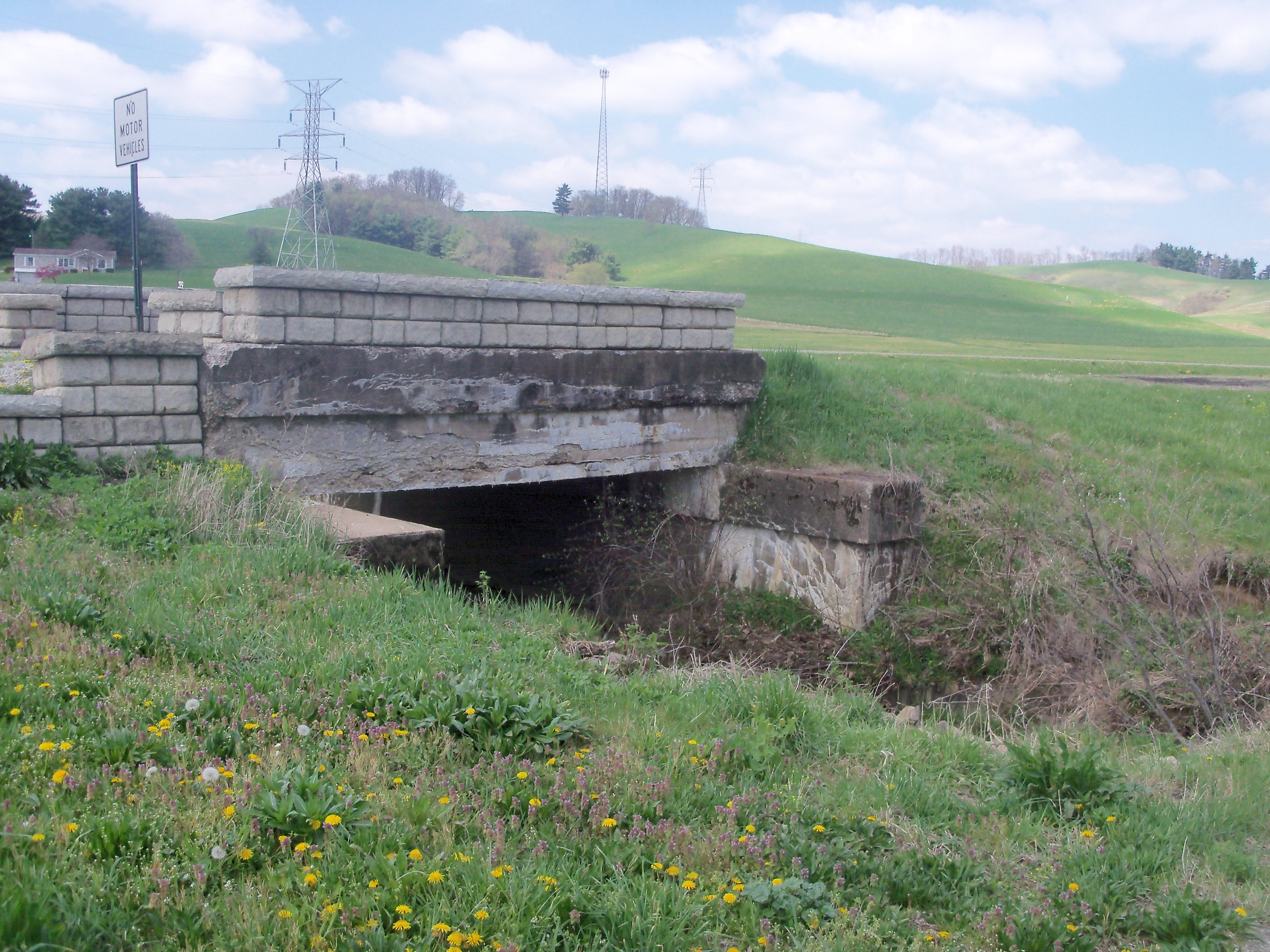 This small footbridge just south of Wolf, Ohio is on the Buckhorn Creek Trail, a trail between Newcomerstown, Ohio and Stone Creek, Ohio along an old railbed between County Road 21 and Interstate 77.